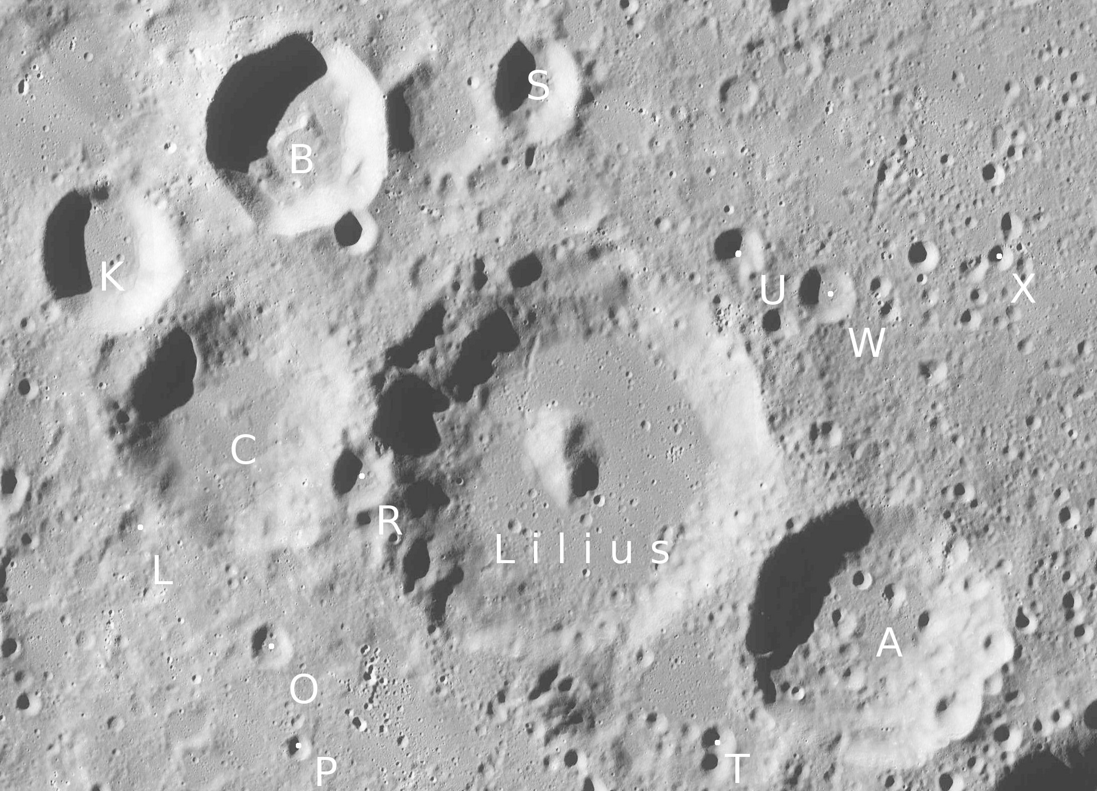 Crater Lilius with satellite features (detail of LRO - WAC global moon mosaic; Mercator projection)